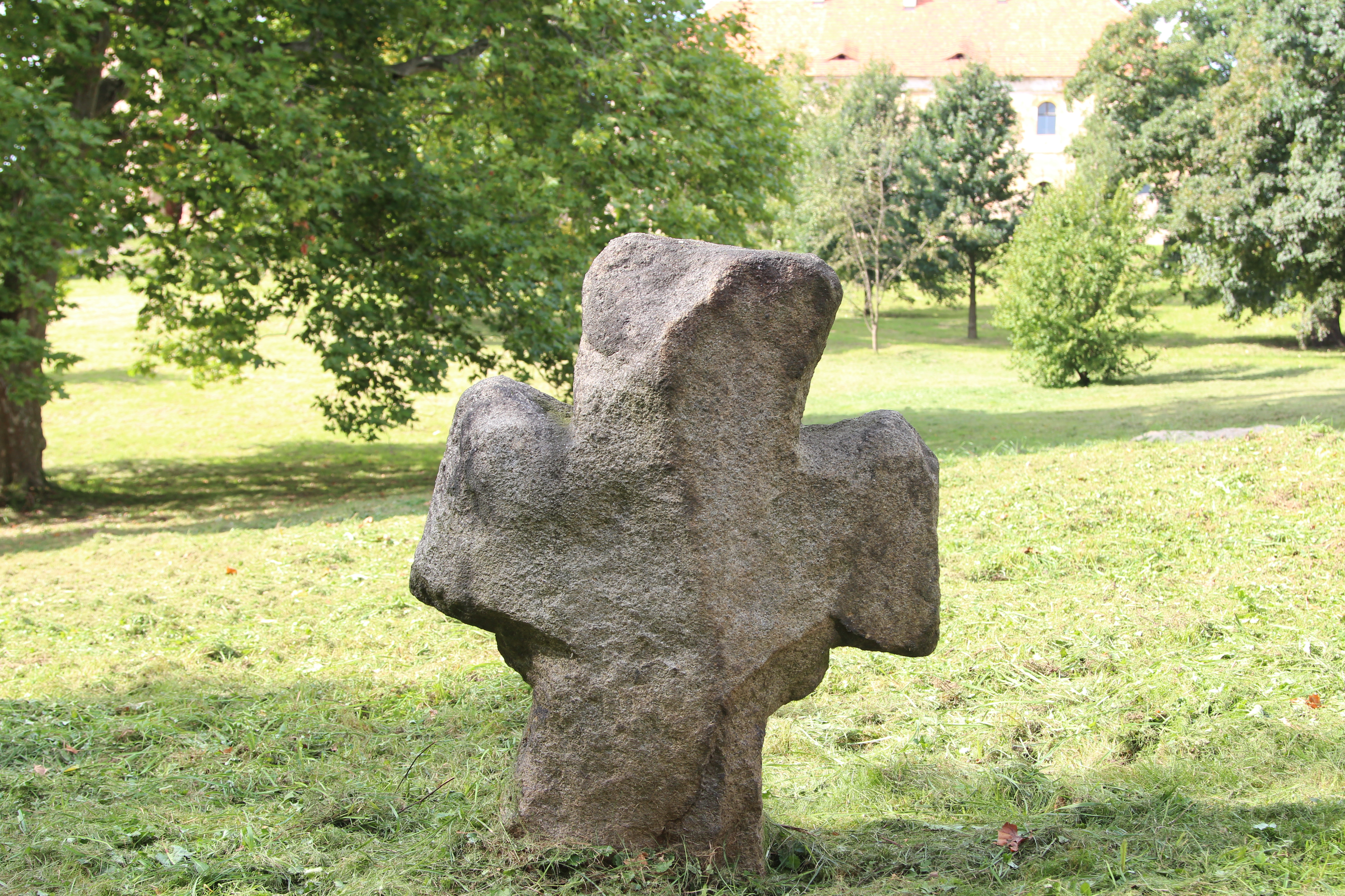 Stone cross in Wierzbna